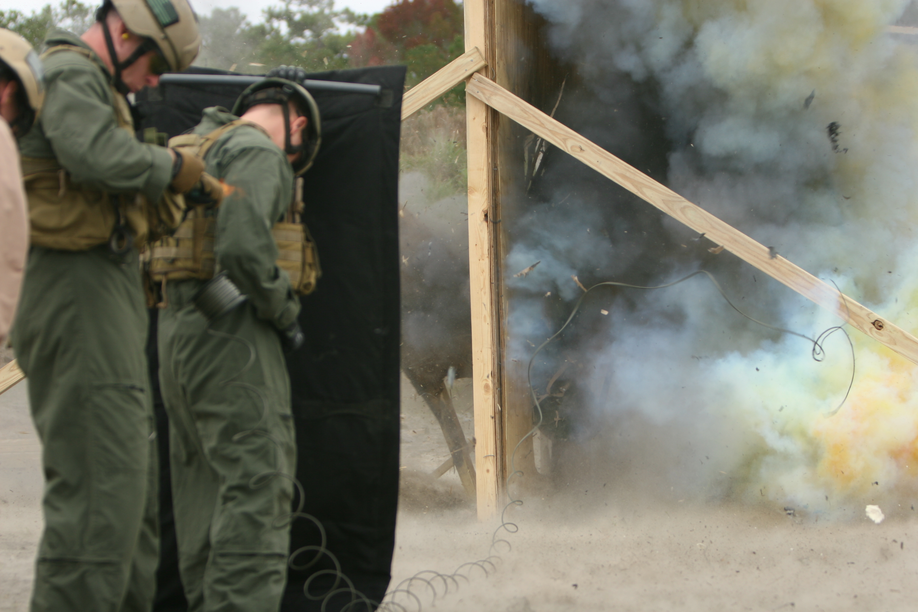 Marines with 3rd Marine Special Operations Battalion, Marine Special Operations Regiment, U.S. Marine Corps Forces, Special Operations Command, blast an openning through a mock wall during explosive breaching refresher training aboard Camp Lejeune, N.C., Nov. 3, 2010. MARSOC critical skills operators constantly sharpen their skills for future operations. (U.S. Marine Corps photo by Lance Cpl. Thomas W. Provost)